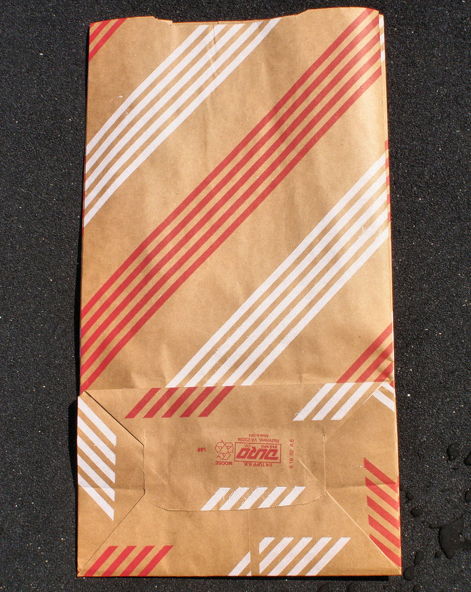 A typical paper burn bag as used by the United States Department of Defense